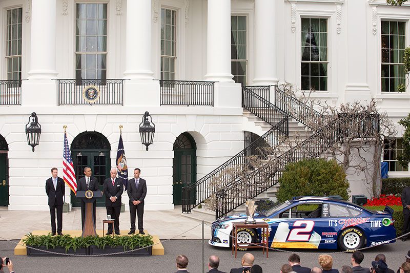 NASCAR driver Brad Keselowski, crew chief Paul Wolfe and team owner Roger Penske visit President Barack Obama at the White House.